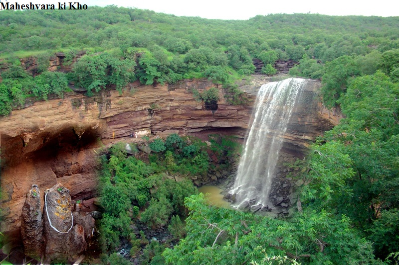 Maheshvara ki kho